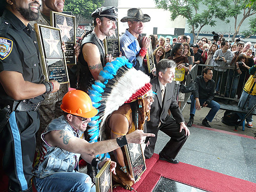 Village People: Eric Anzalone (Biker), Ray Simpson (Cop), Alex Briley (Soldier), Felipe Rose (Native American Indian), Jeff Olson (Cowboy), David Hodo (Construction Worker) receive a star on the Hollywood Walk of Fame, September 12, 2008